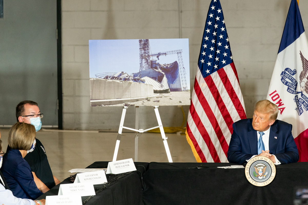 President Donald J. Trump receives a briefing on Iowa disaster recovery Tuesday, Aug. 18, 2020, at Eastern Iowa Airport in Cedar Rapids, Iowa. (Official White House Photo by Shealah Craighead)